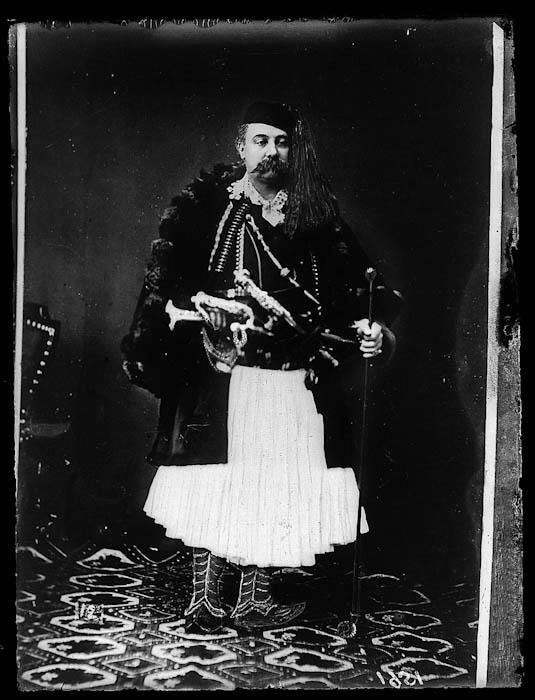 Portrait of the anti-ottoman fighter Hamza Kazazi, photographed by Pjetër Marubi in 1858, is the first known Albanian photo